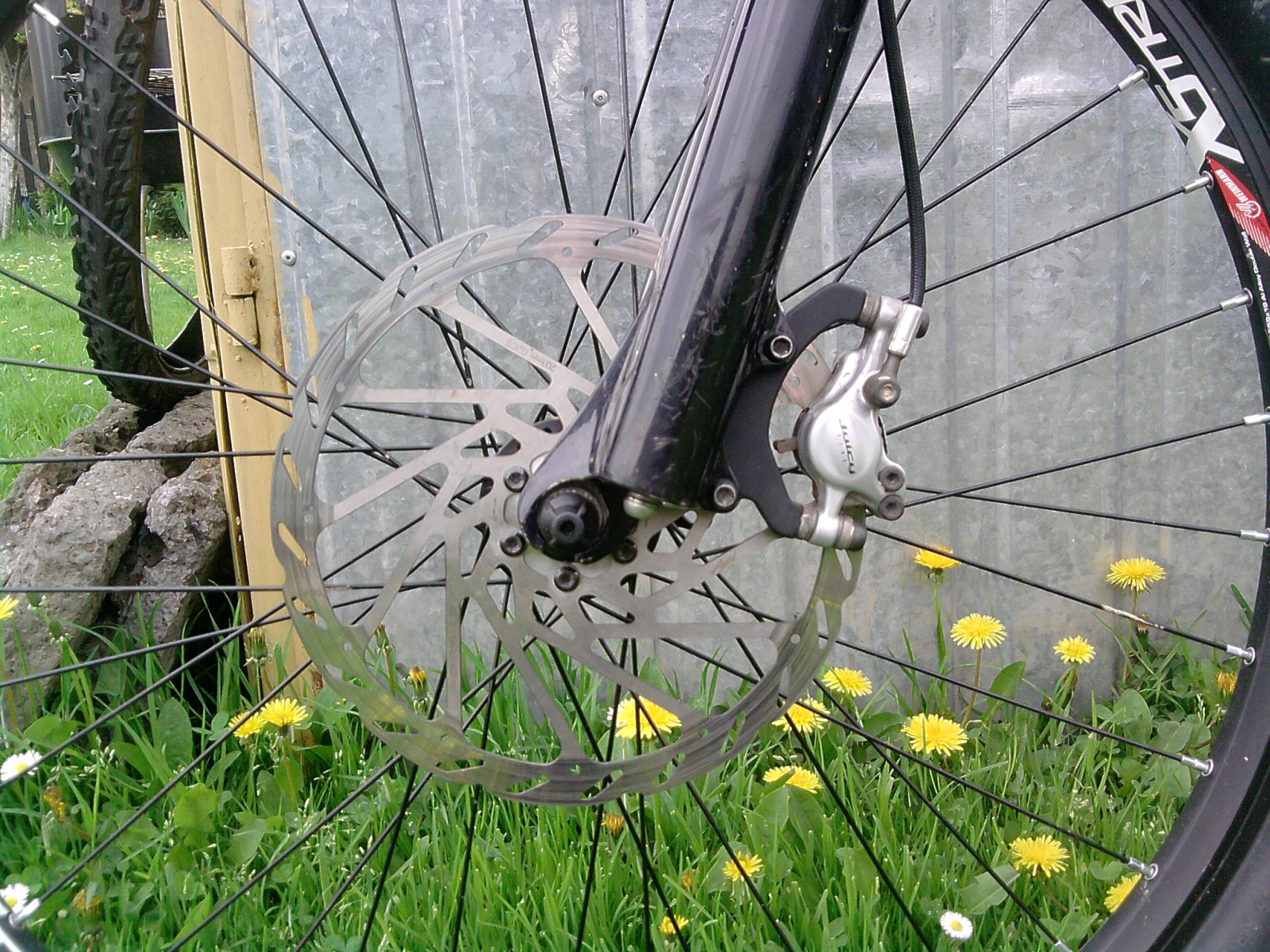 Avid Juicy 5 hydraulic front brake